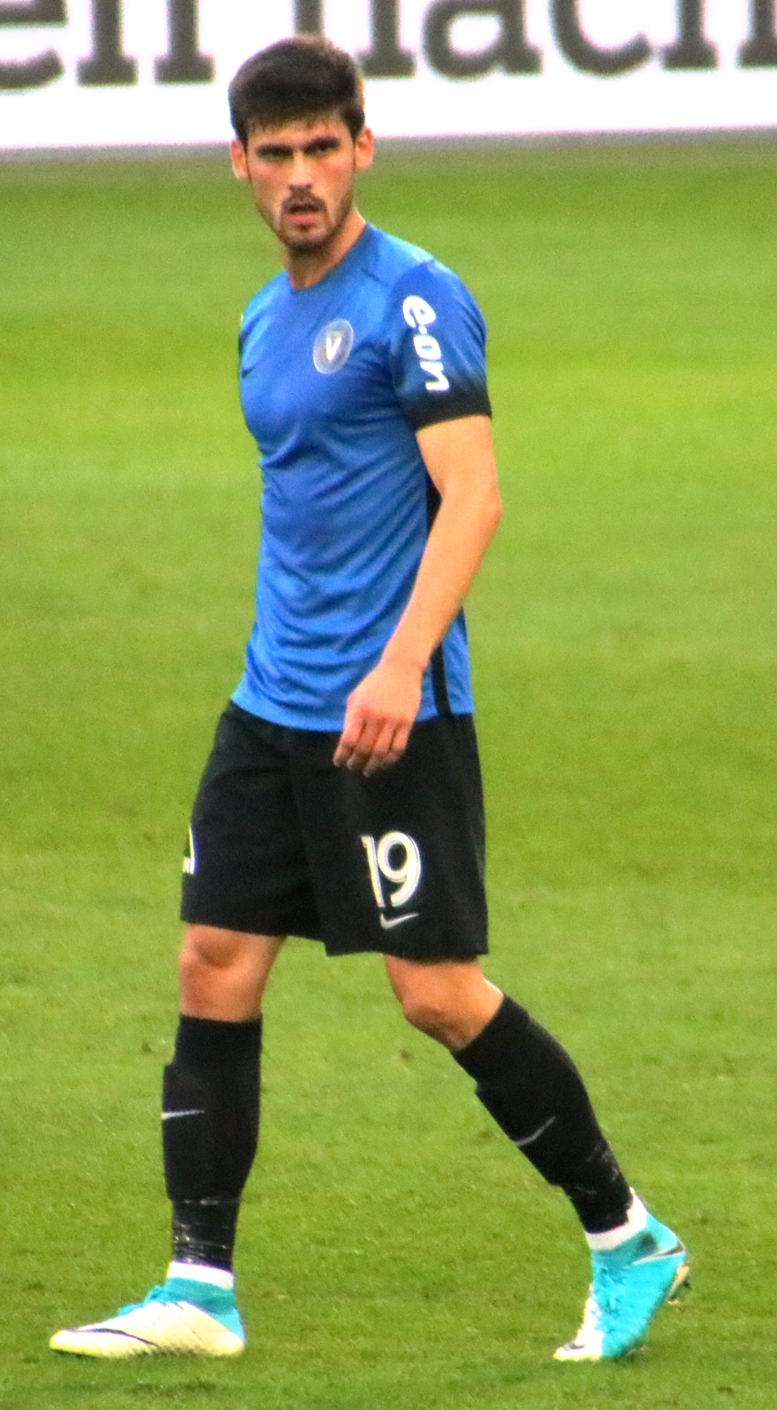 Robert Hodorogea in Euroleague play off 2nd leg